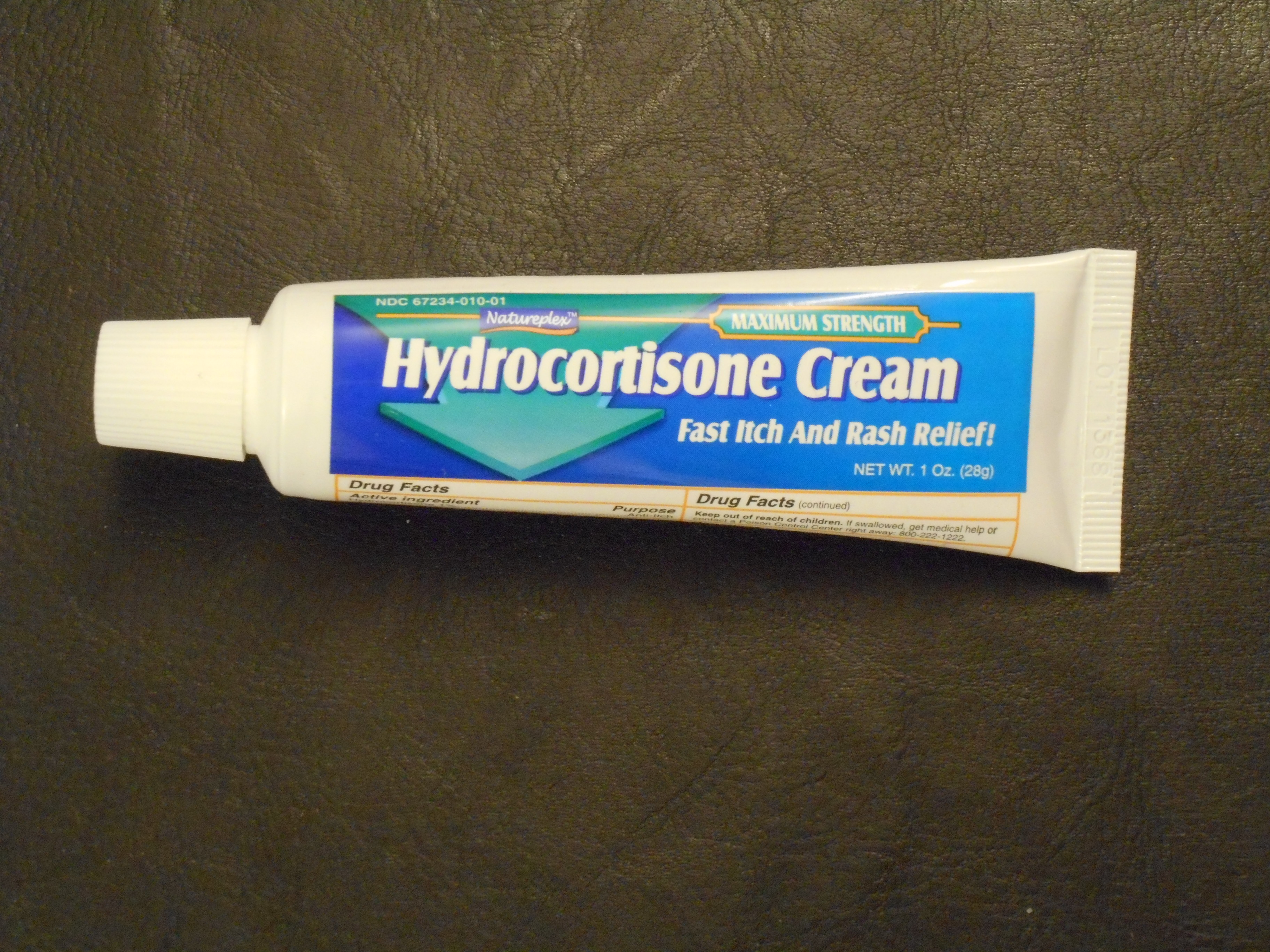 Tube of hydrocortisone cream, 1% concentration, 1 ounce package, Natureplex brand. Purchased over the counter in the United States.